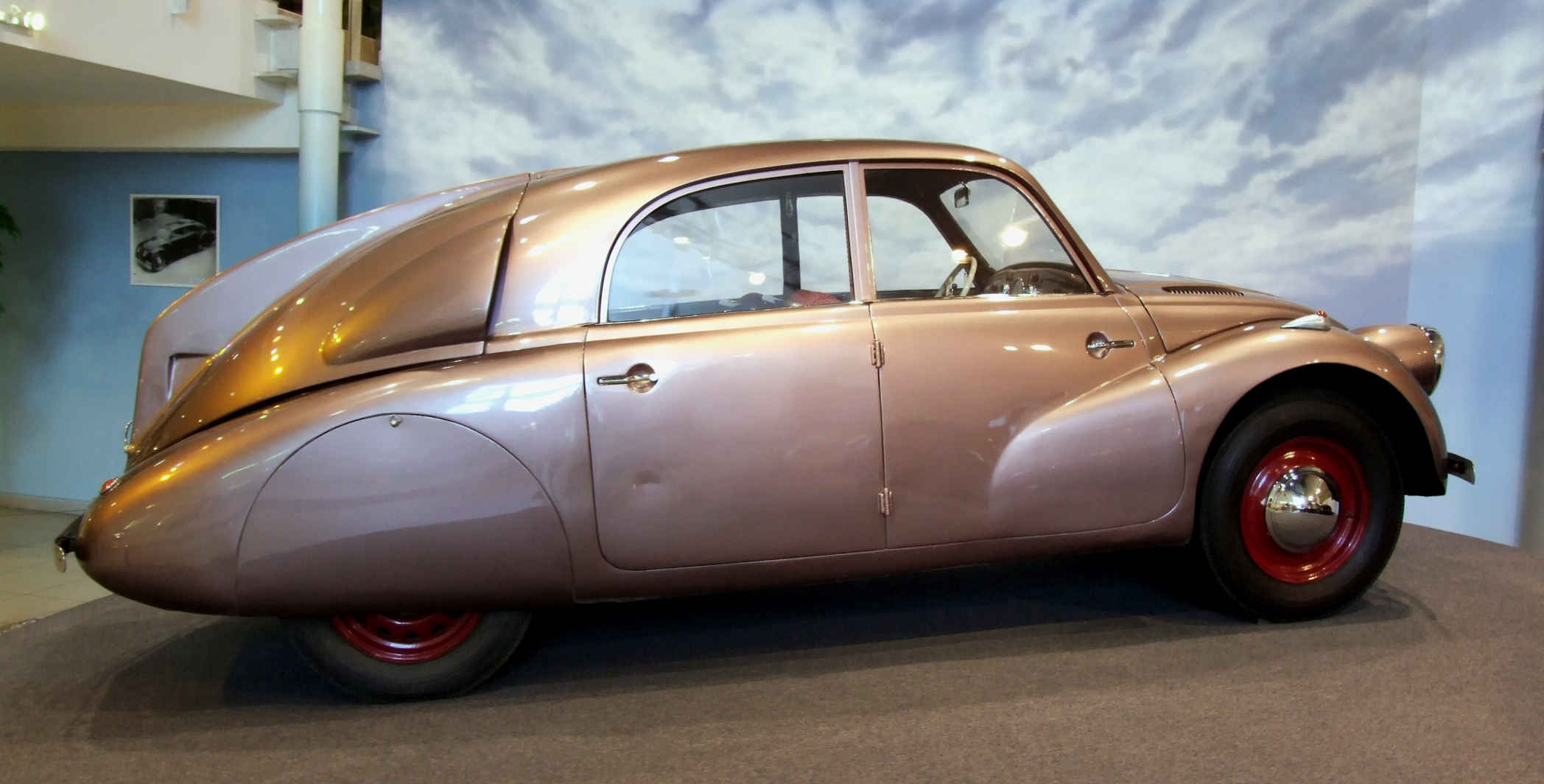 Tatra 97 - Tatra Museum in Kopřivnice Ślůnski: Auto Tatra 97 we muzyjům we mjeśće Kopřivnice (Nesselsdorf), Czesko Republika.